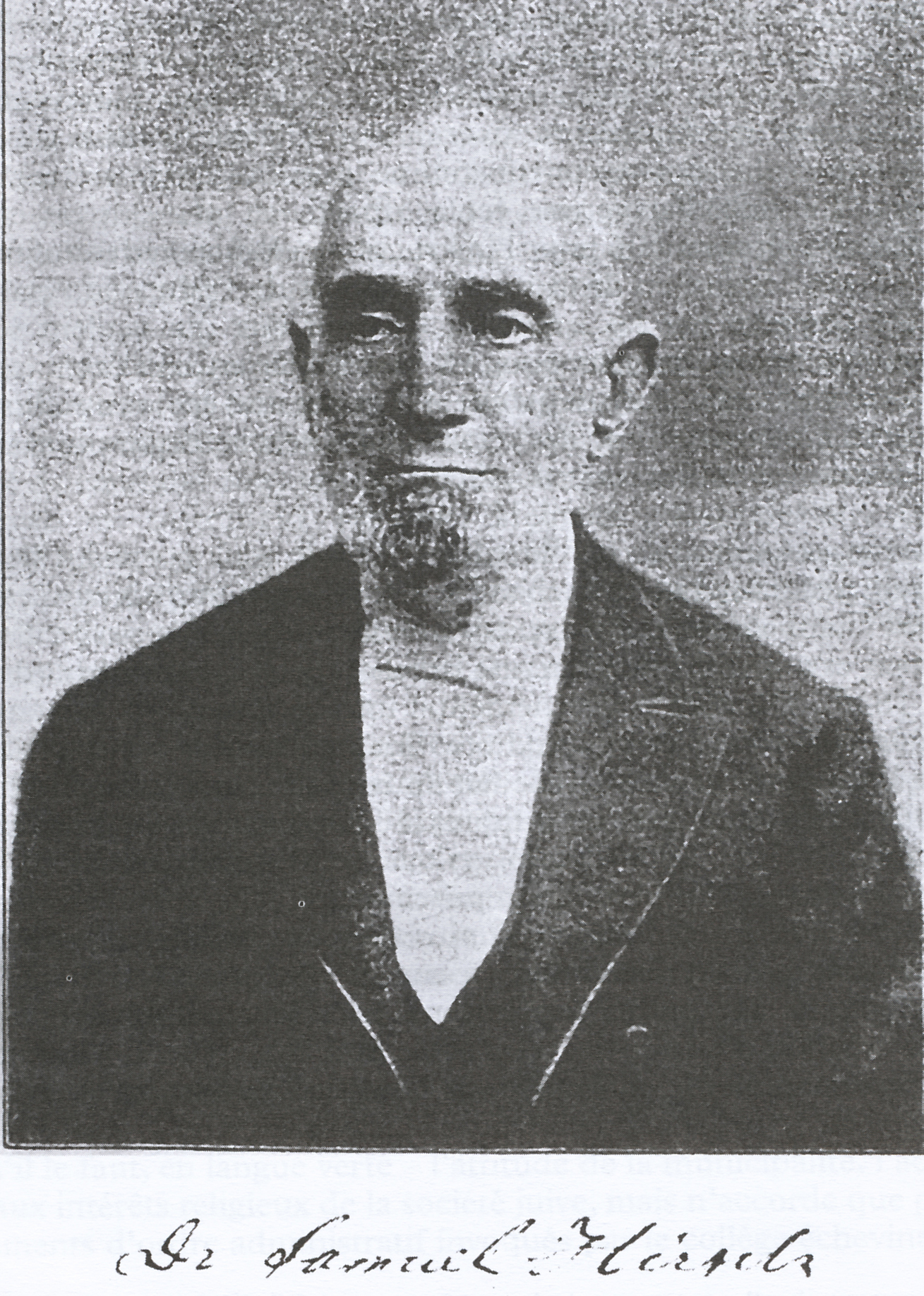 Samuel Hirsch (1815-1885), reform religious philosopher and rabbi.